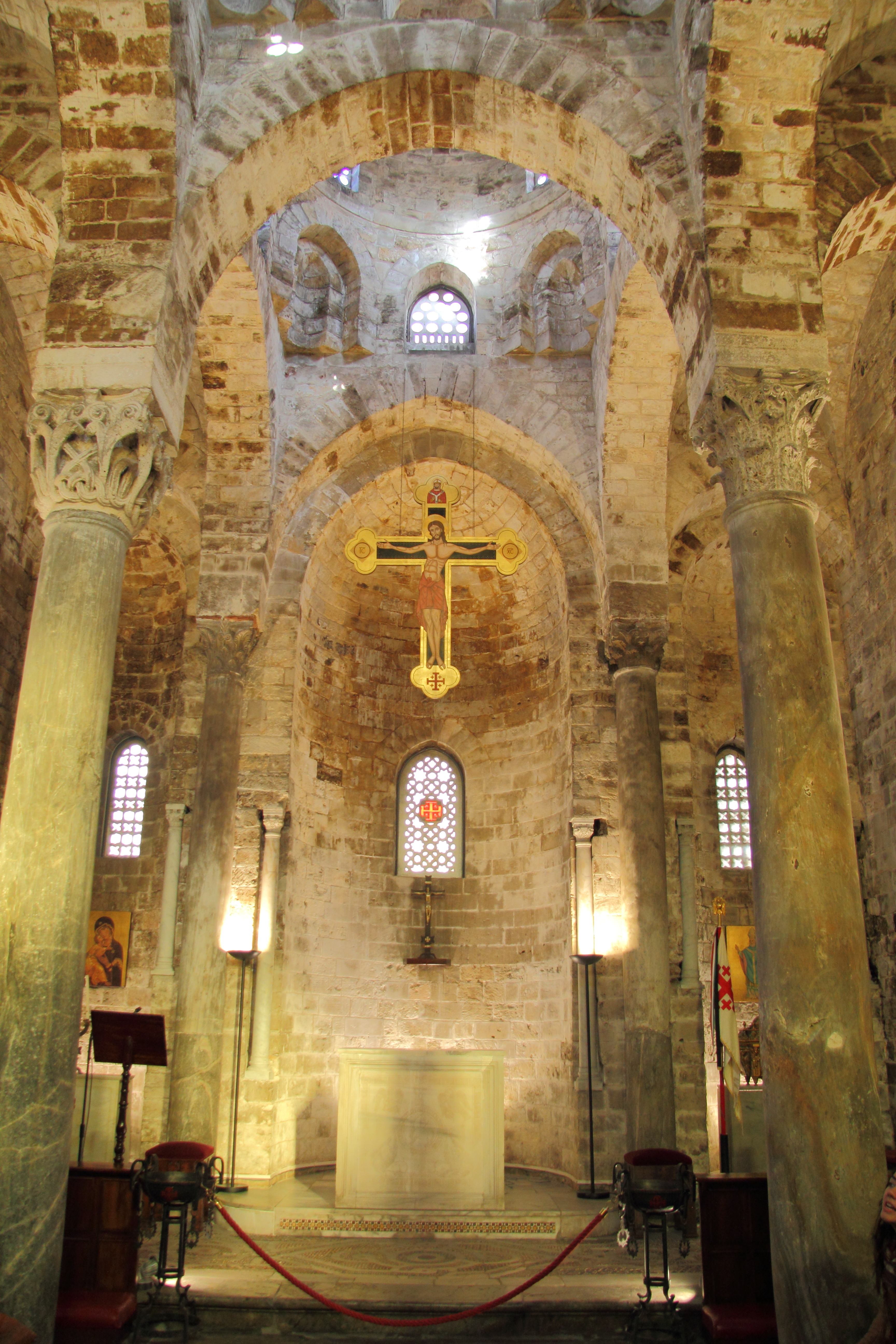 Palermo, Sicily, Italy: Church of San Cataldo